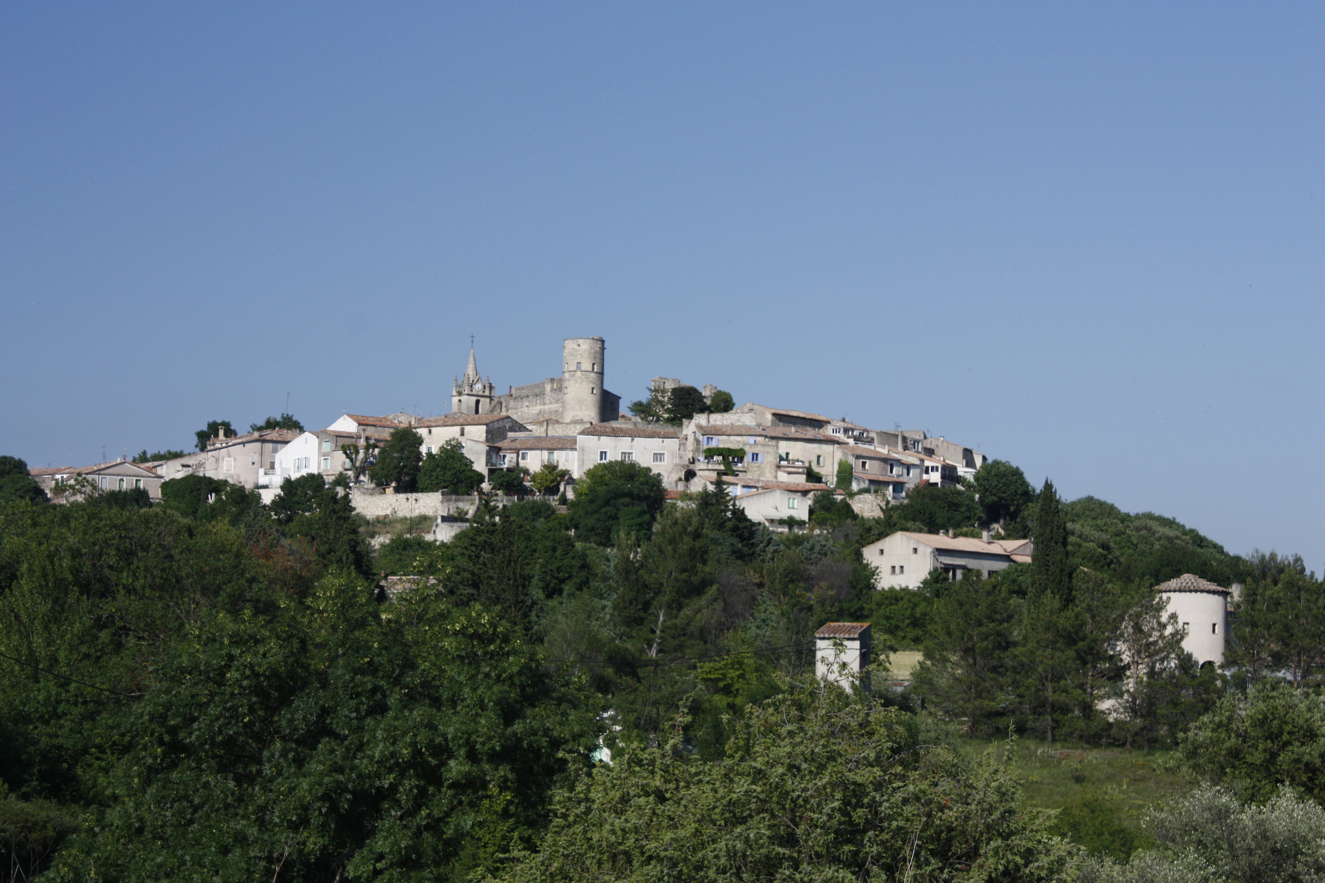 The castle and the village of Montpezat perched on the slope.